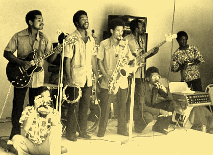 Jazz- and reggaeconsert in the street in Spanish Town, Jamaica